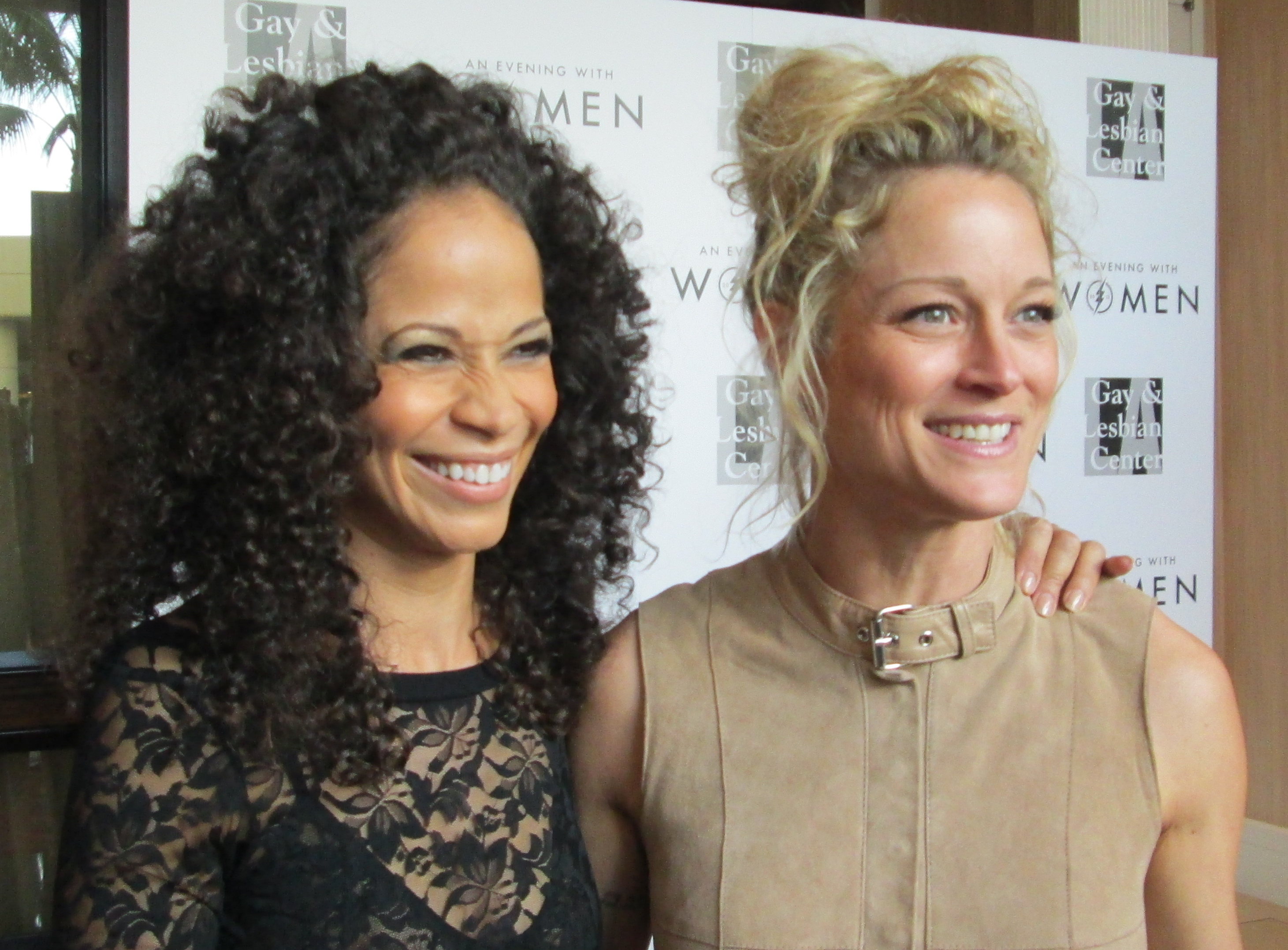 At An Evening With Women event at Beverly Hilton, May 18, 2013